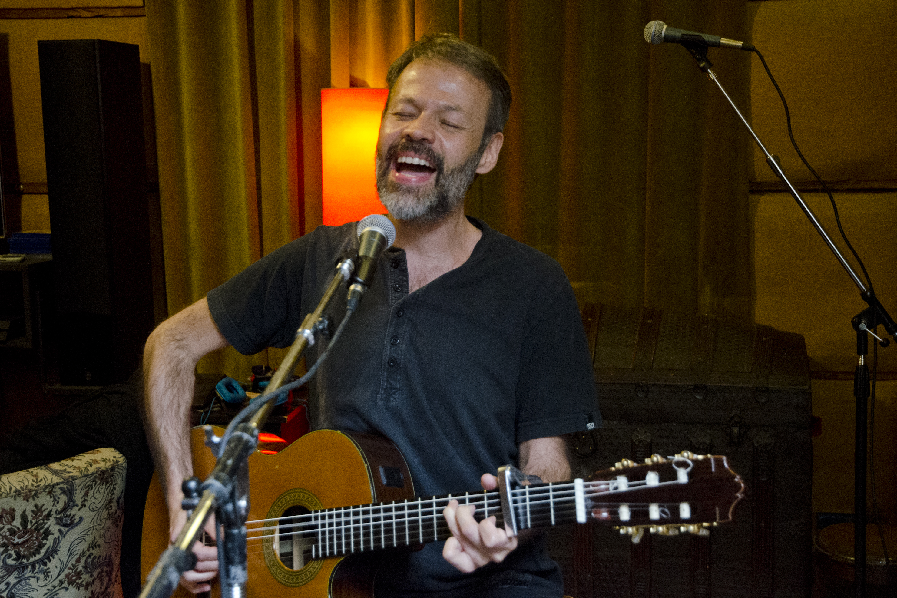 Buenos Aires, 30 de septiembre de 2014.- Ensayo de “Hermano Sol”, homenaje a la fe en el día de San Francisco.Foto: Augusto Starita / Ministerio de Cultura de la Nación.